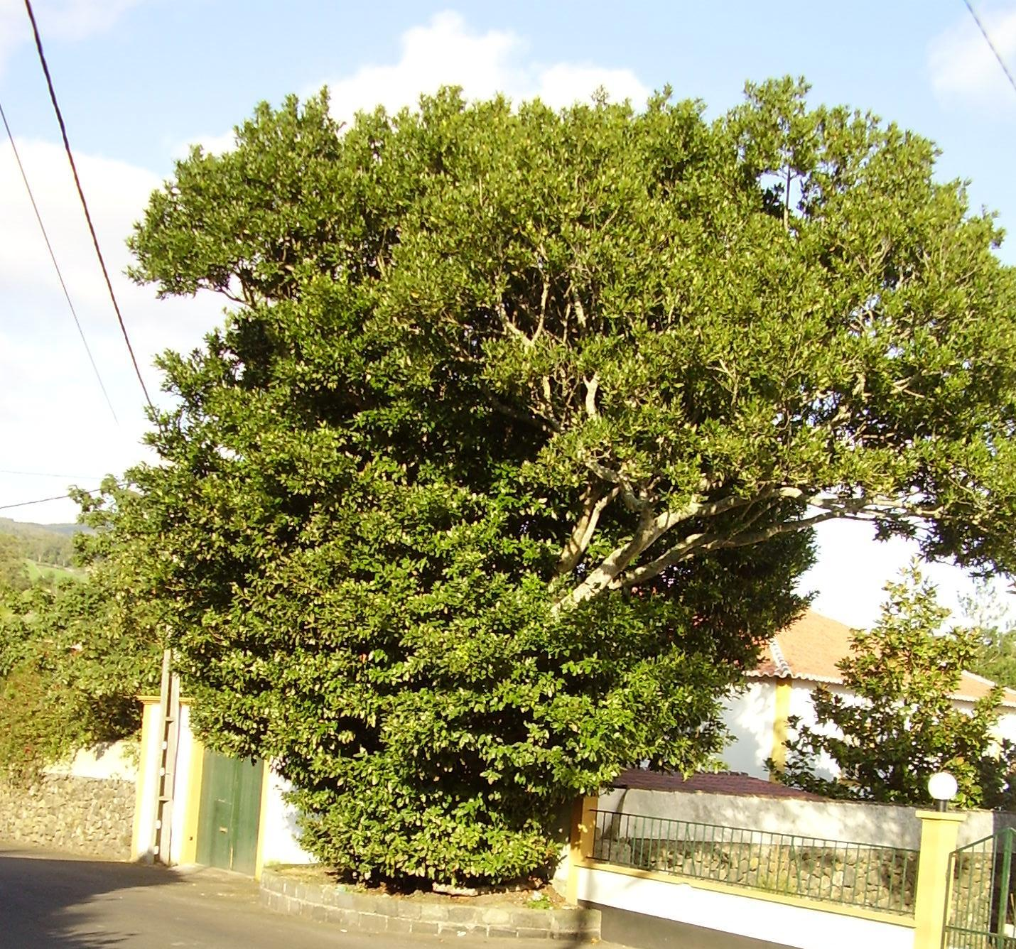 Ocotea foetens tree (Terra Chã, Terceira, Azores). The tree in the photo has been classified as a monument since 1965.